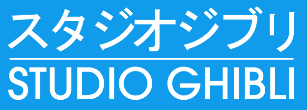 Studio Ghibli logo, created in Photoshop. Font used: MS Gothic and AvantGarde LT Medium.